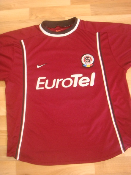 An AC Sparta Prague 2000 home shirt